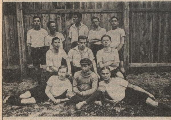 Football club Ukraina Lwów in 1923 year.